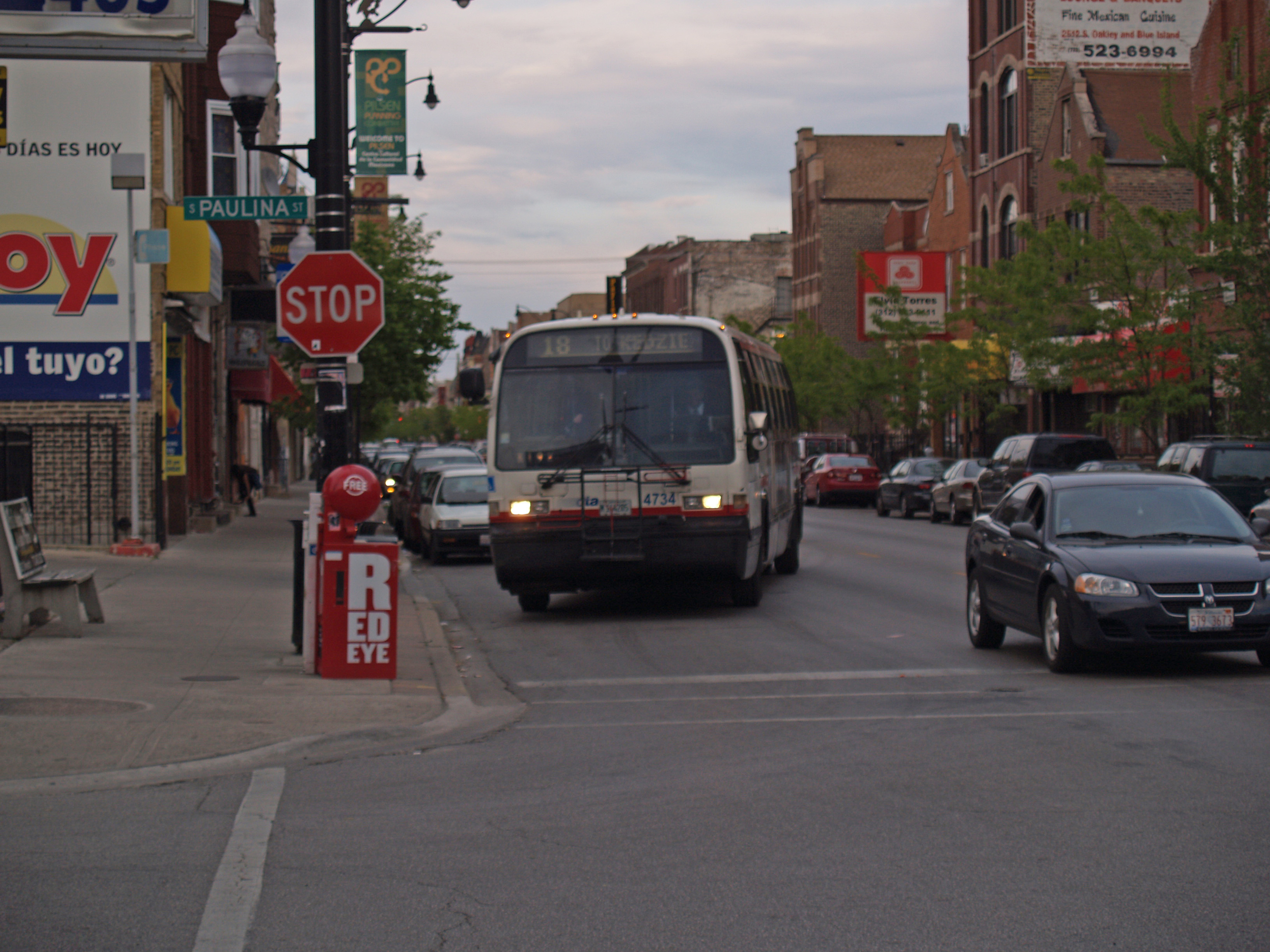 One of the remaining TMC- RTS buses running on 18th street in Pilsen, the West Side of Chicago, Illinois.